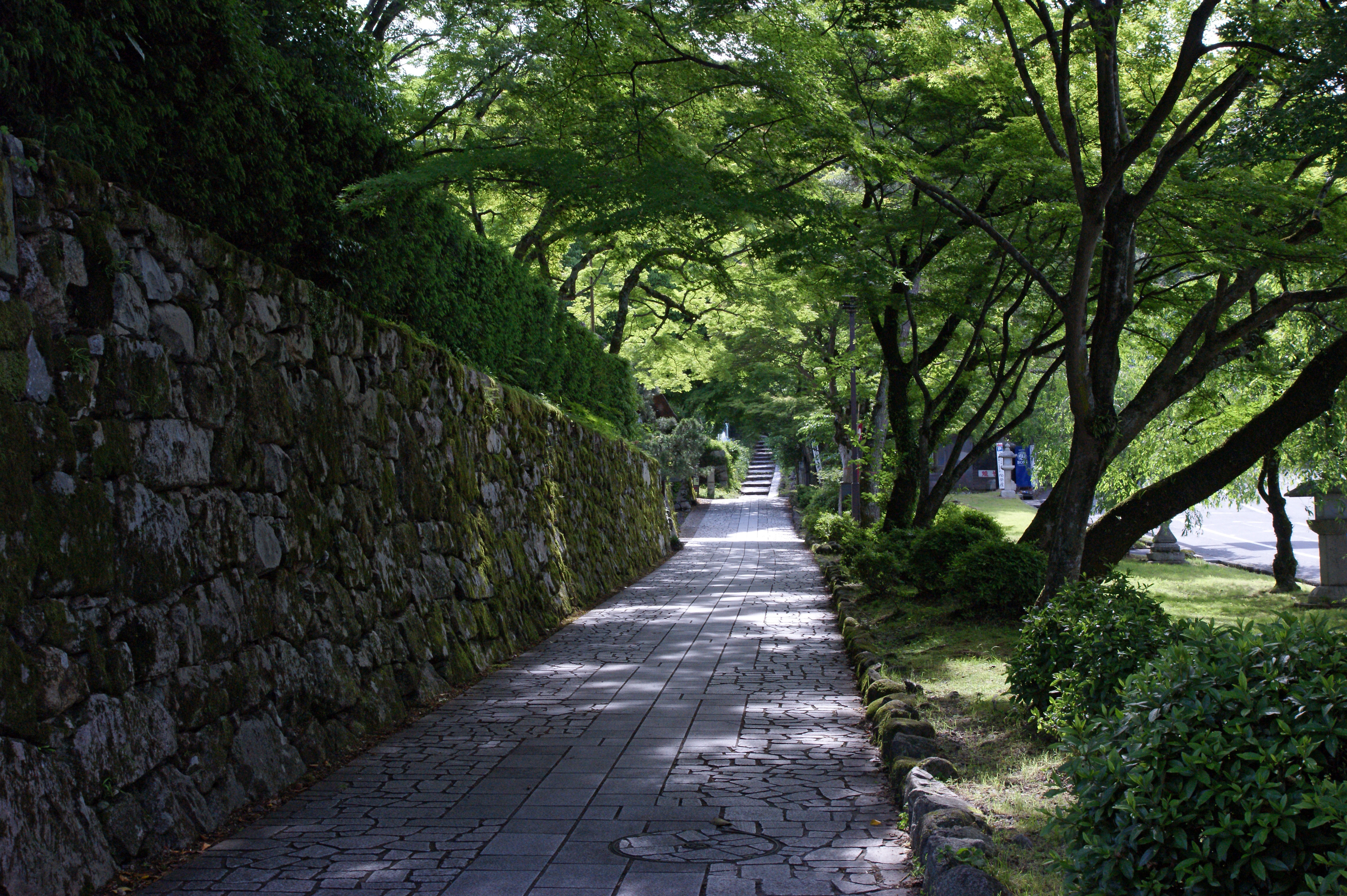 Sakamoto in Otsu, Shiga prefecture, Japan